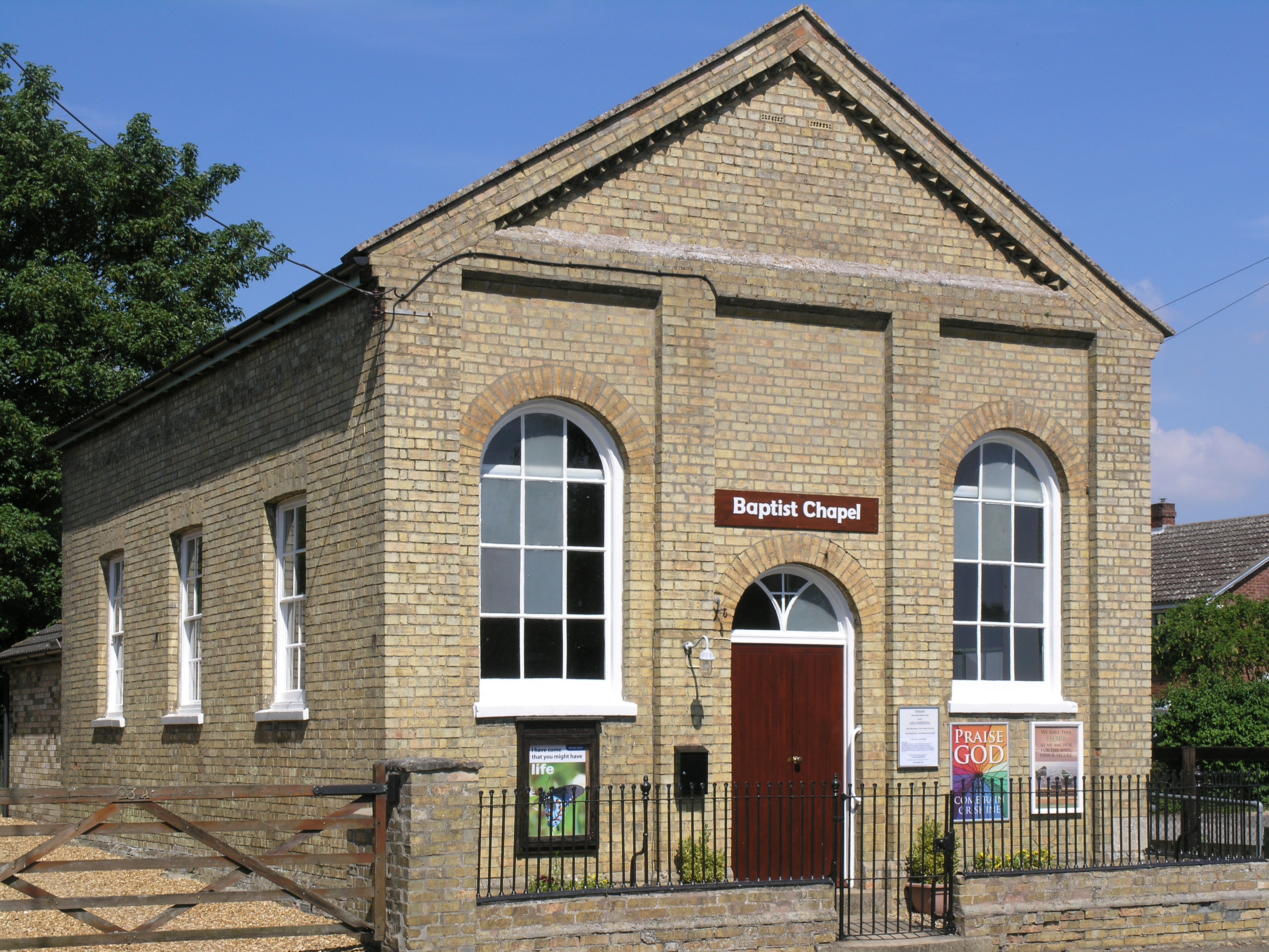 Baptist Church, Little Thetford, Cambridgeshire